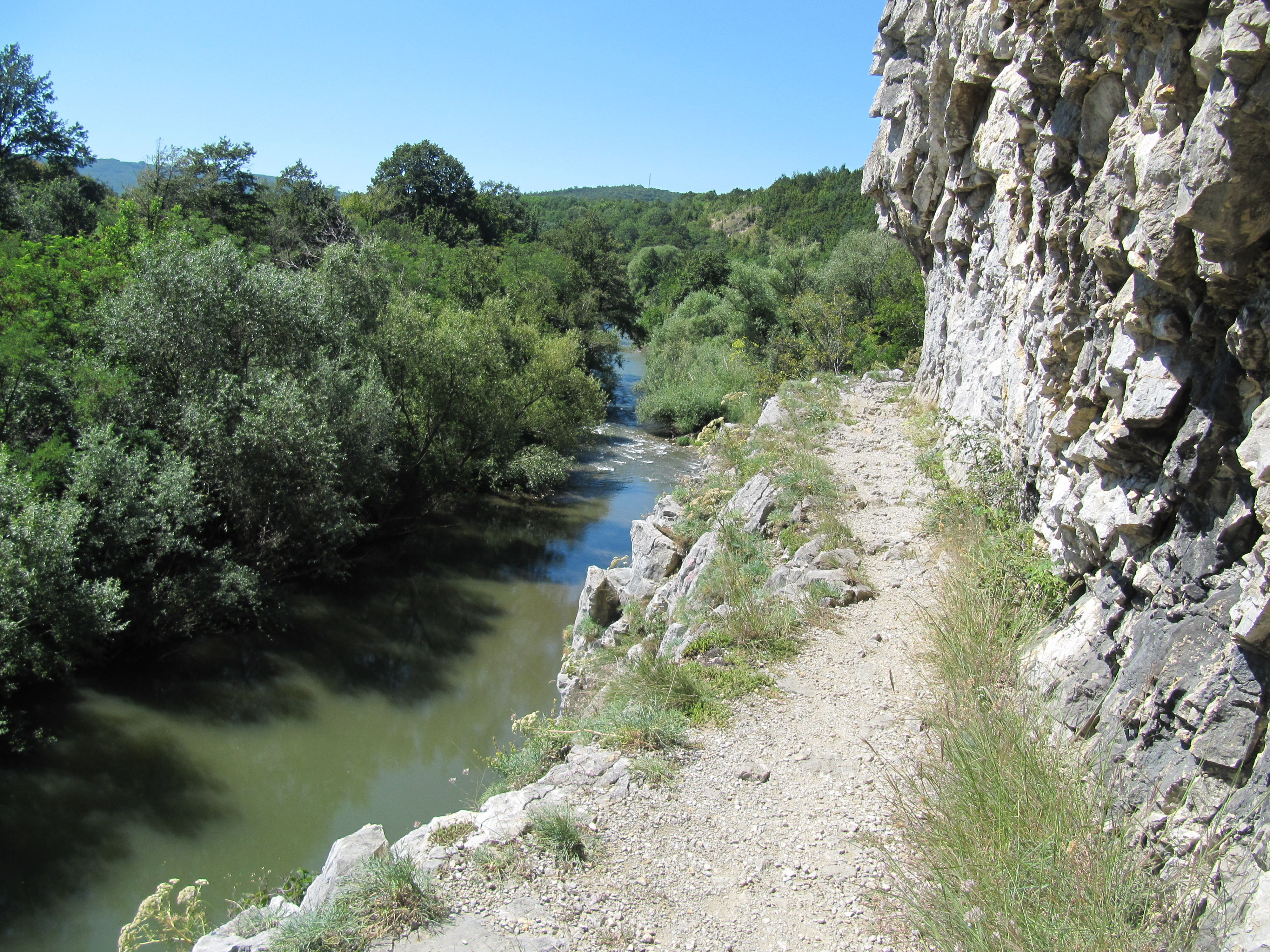 Cheile Nerei–Beusnita (Nera Gorges) National Park, Romania.